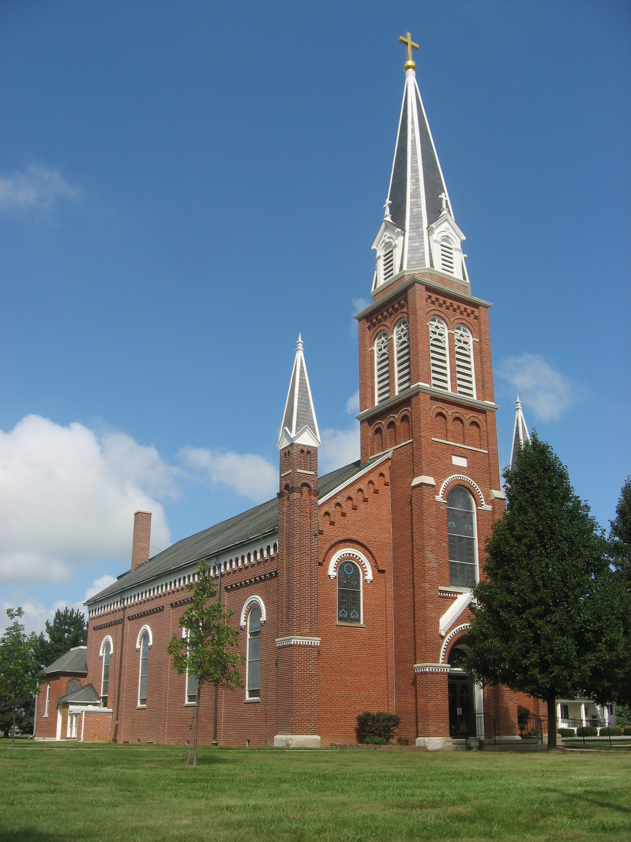 Front and southern side of St. Anthony's Catholic Church in Padua, an unincorporated community in Washington Township, Mercer County, Ohio, United States. Note the distinctive and unusual pilasters on the corners of the facade. Built in 1869, the church was listed on the National Register of Historic Places as a part of the Cross-Tipped Churches of Ohio Thematic Resources.